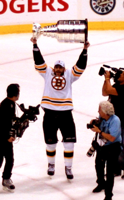 Boston Bruins forward Milan Lucic celebrates with the Stanley Cup after his team's Game 7 win against the Vancouver Canucks on June 15, 2011.